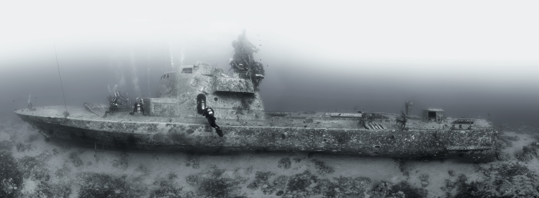 Retired missile boat Sufa sunk offshore in Eilat as an habitate for marine flora and fauna and diving attraction.